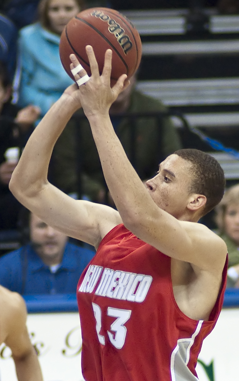 University of New Mexico basketball player Phillip McDonald attempts a free throw.